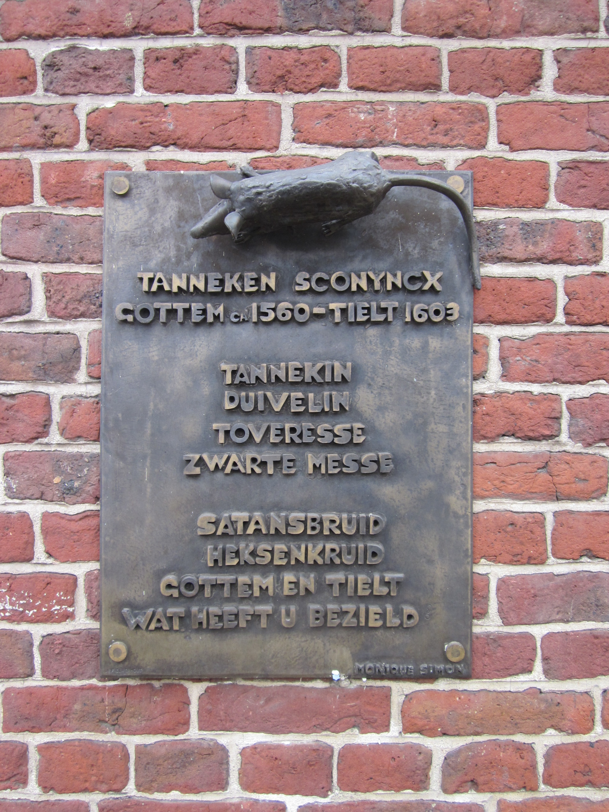 Plaque to 'witch' Tanneken Sconyncx on the Belfry op Tielt, Belgium